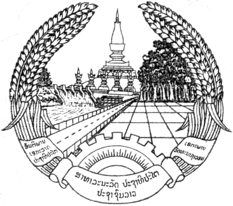 Laos coat of arms since 1991